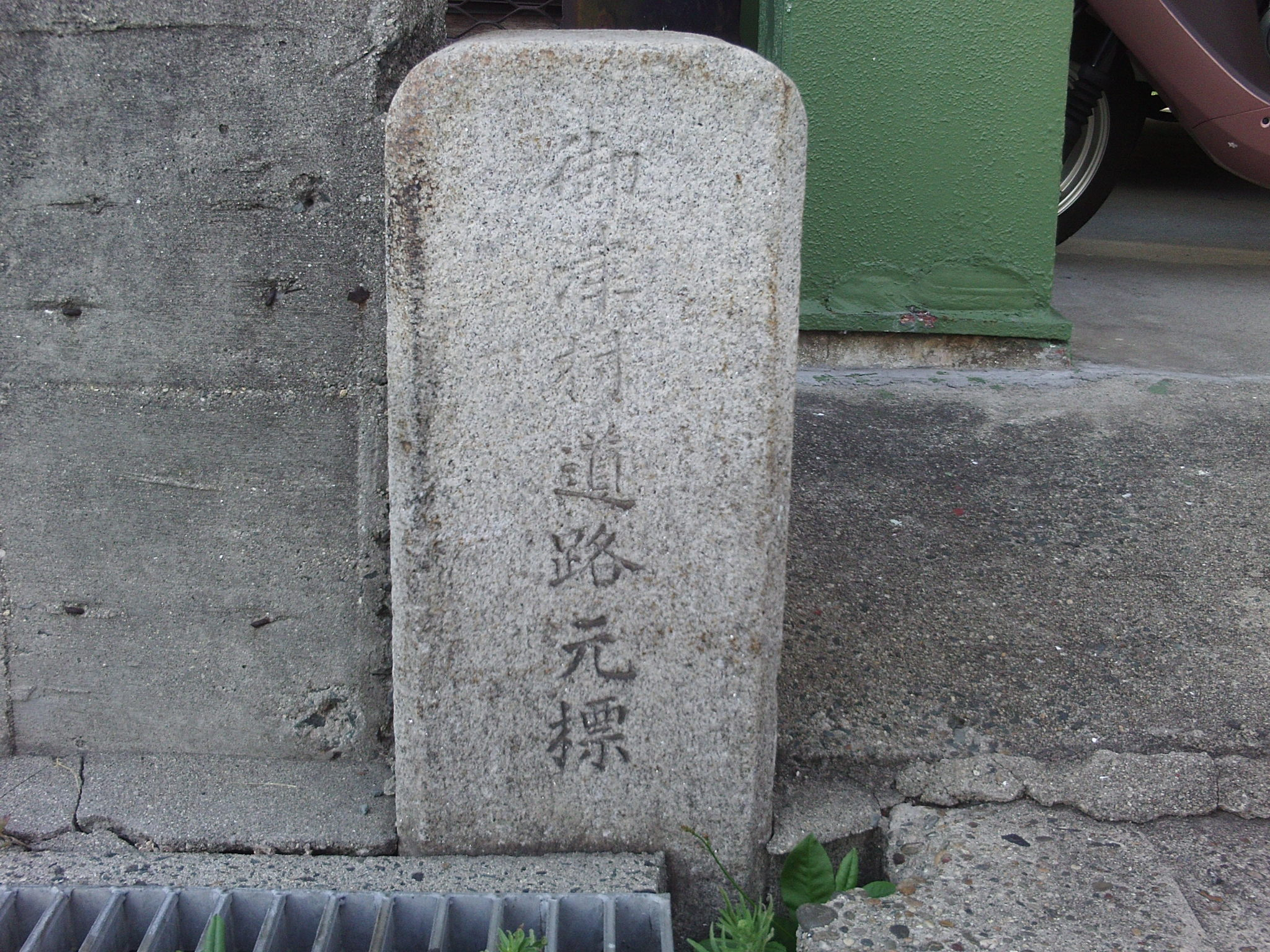 Kilometre zero of Mito village. (Mito village, Hoi-gun, Aichi.)